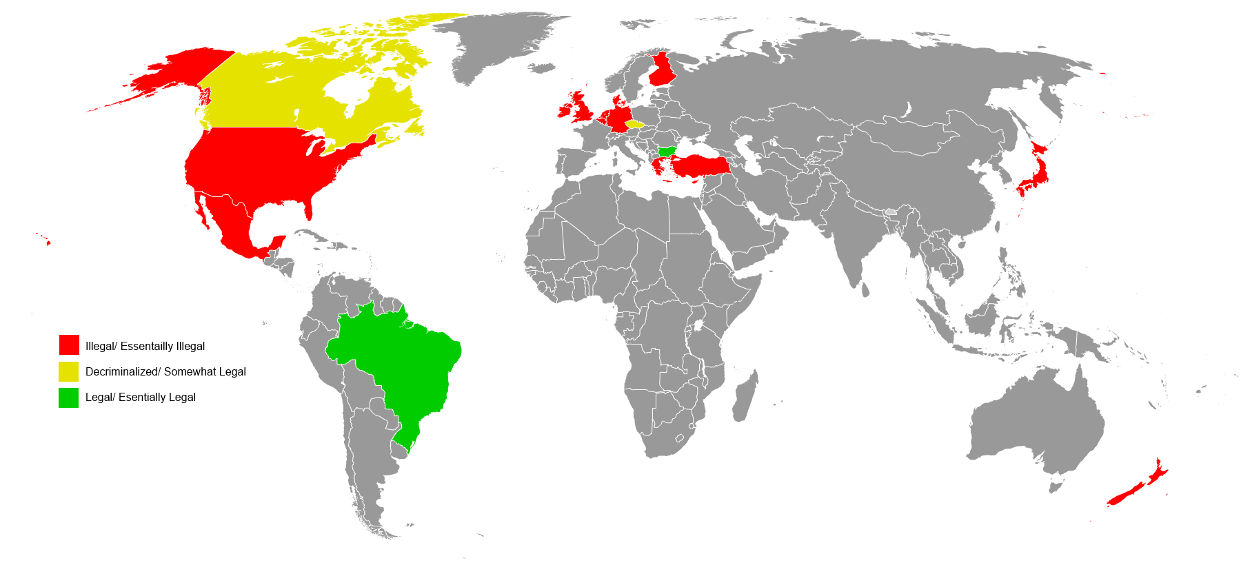 Psilocybin mushroom legal statuses.